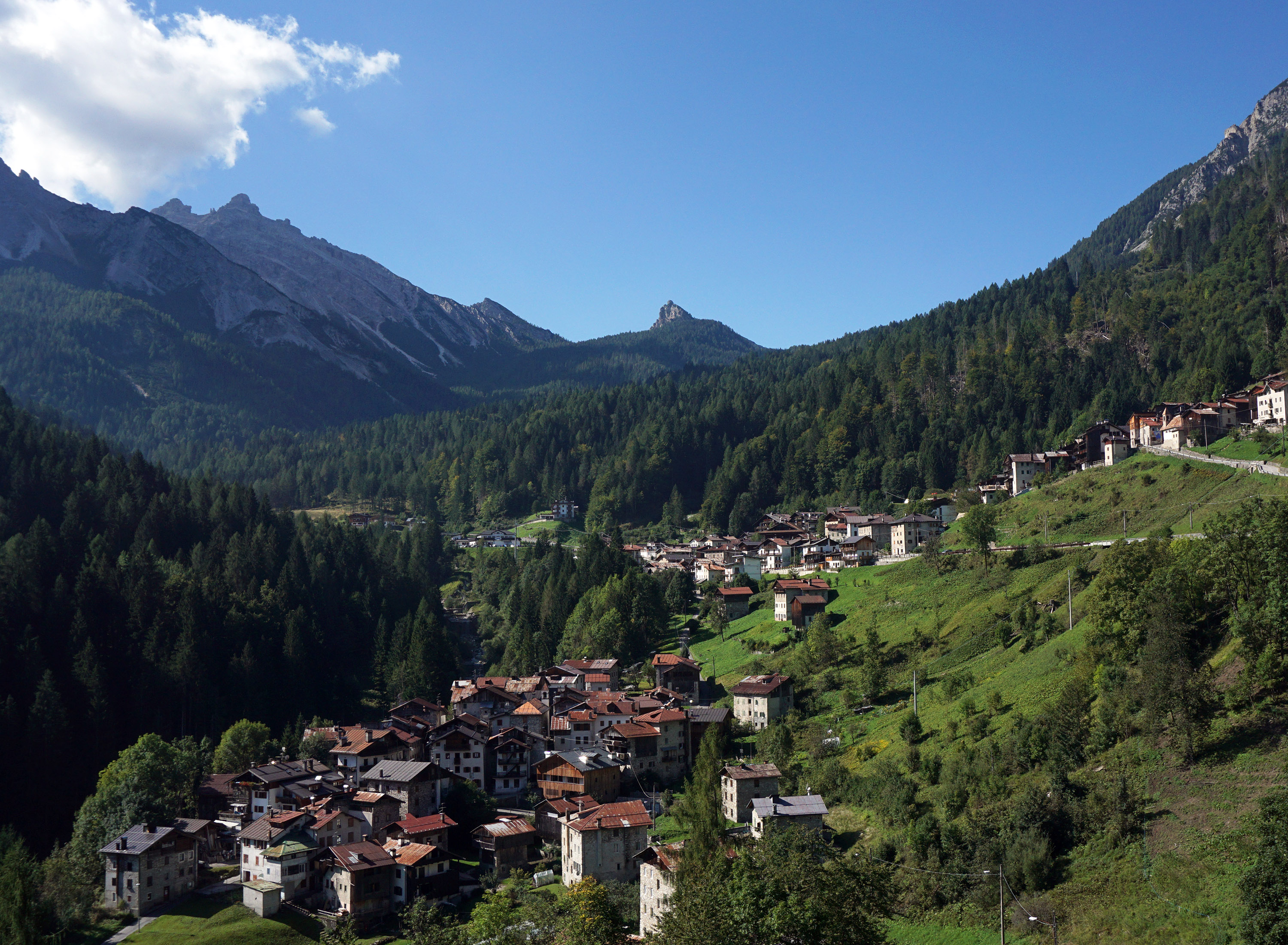 Cibiana di Cadore, Dolomites.